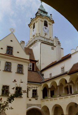 Bratislava town centre building, photo by Asterion